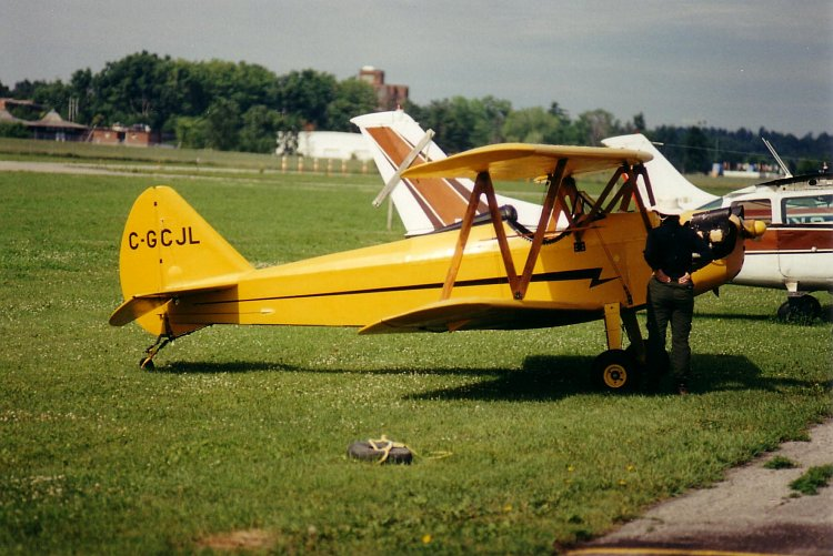 I took this photo of a Bowers Bi-Baby (C-GCJL) at Rockcliffe airport in 2001.